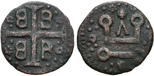 ITALY, Genova. Francesco I Gattilusio. Lord of Lesbos, 1355-1384. BI Denaro (15mm, 0.93 g, 5 or 11h). Mytilene mint. Palaeologan cross; rosettes and pellets in quarters / Châtel tournois. Lunardi G21. VF, brown surfaces. Very rare.